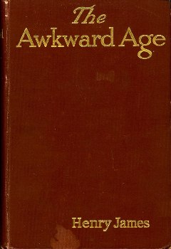 1st Edition cover